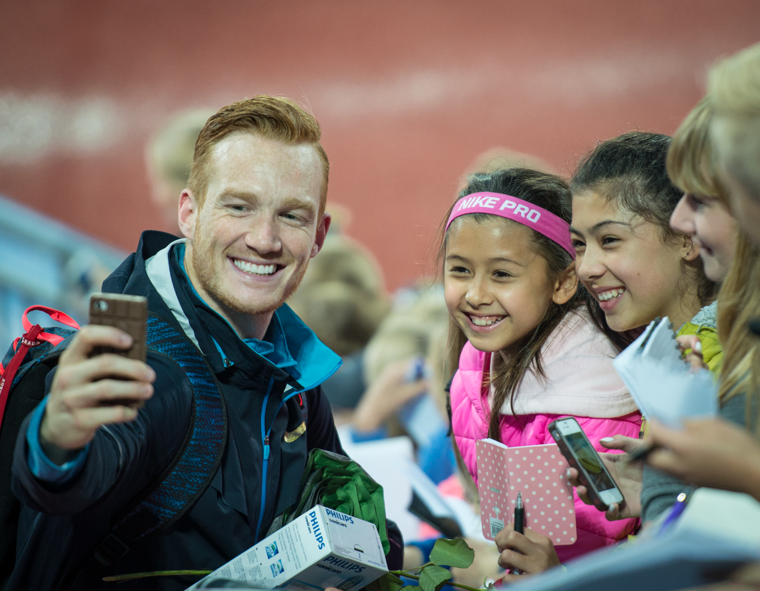 Greg Rutherford, Diamond League (Bauhaus-galan) at the Stockholm Stadium on July 30, 2015.